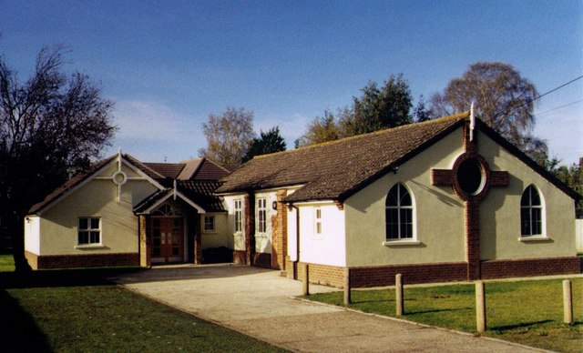 Former church of St Patrick, Charvil, Buckinghamshire. Built in 1952 and deconsecrated in 2011.